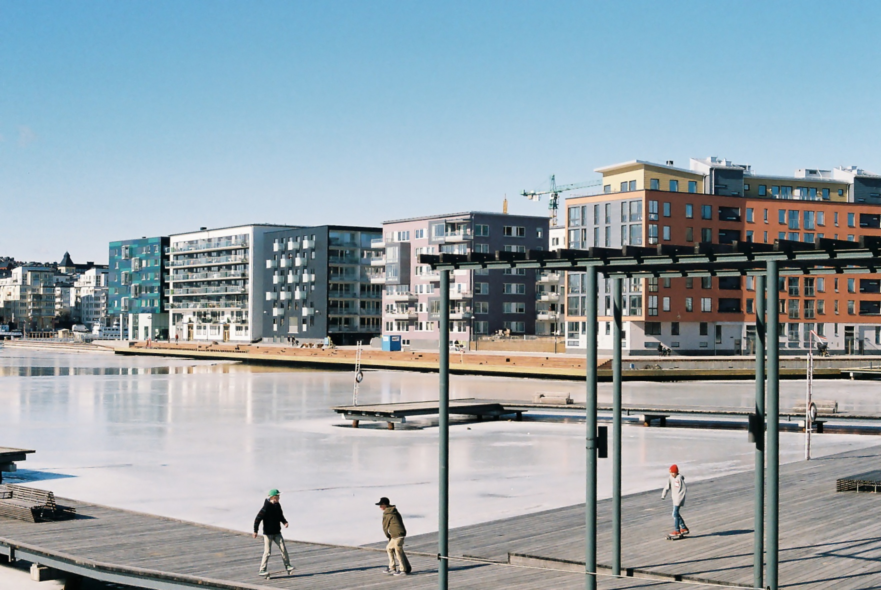 Henriksdalshamnen